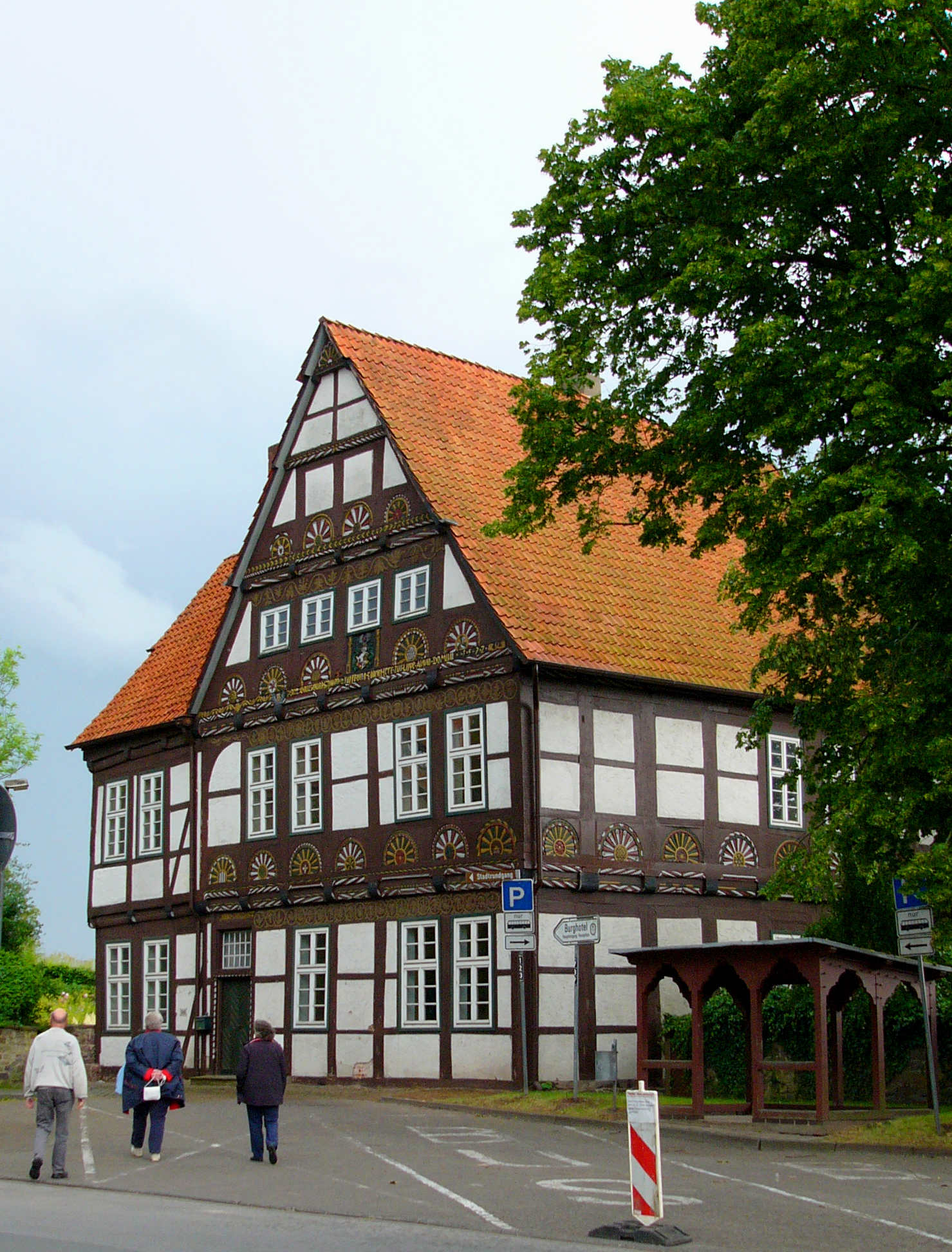 Altes Amtshaus in Blomberg, Germany